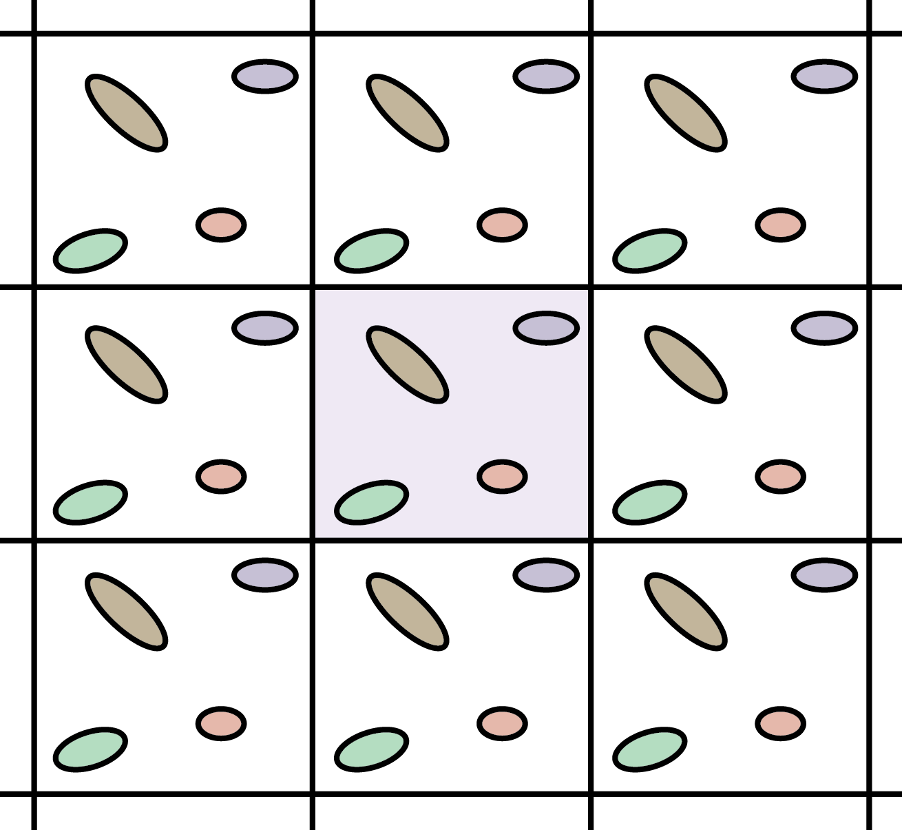 A schematic representation of periodic boundary conditions. The unit cell of system is in the center cell (pink). The potential energy of the system includes interactions between this center cell and its periodic images.